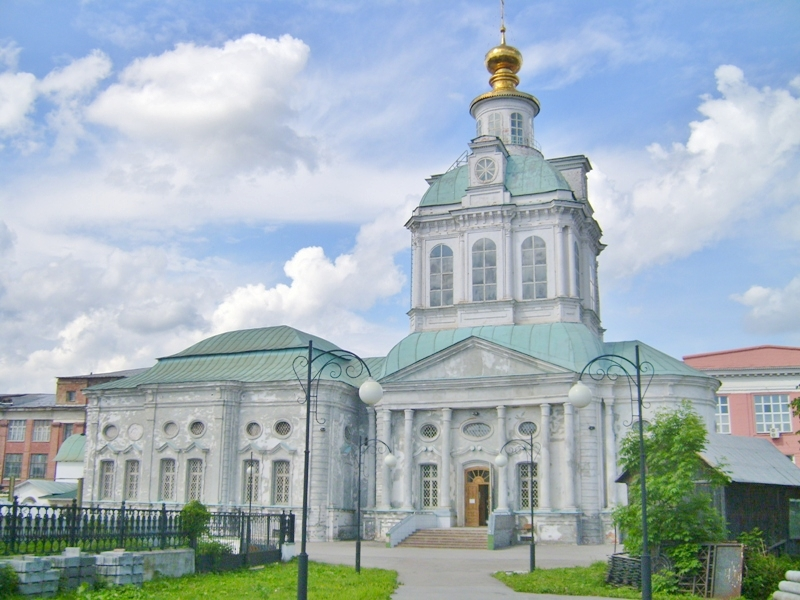 Temple of Flor and Laurus in Tula